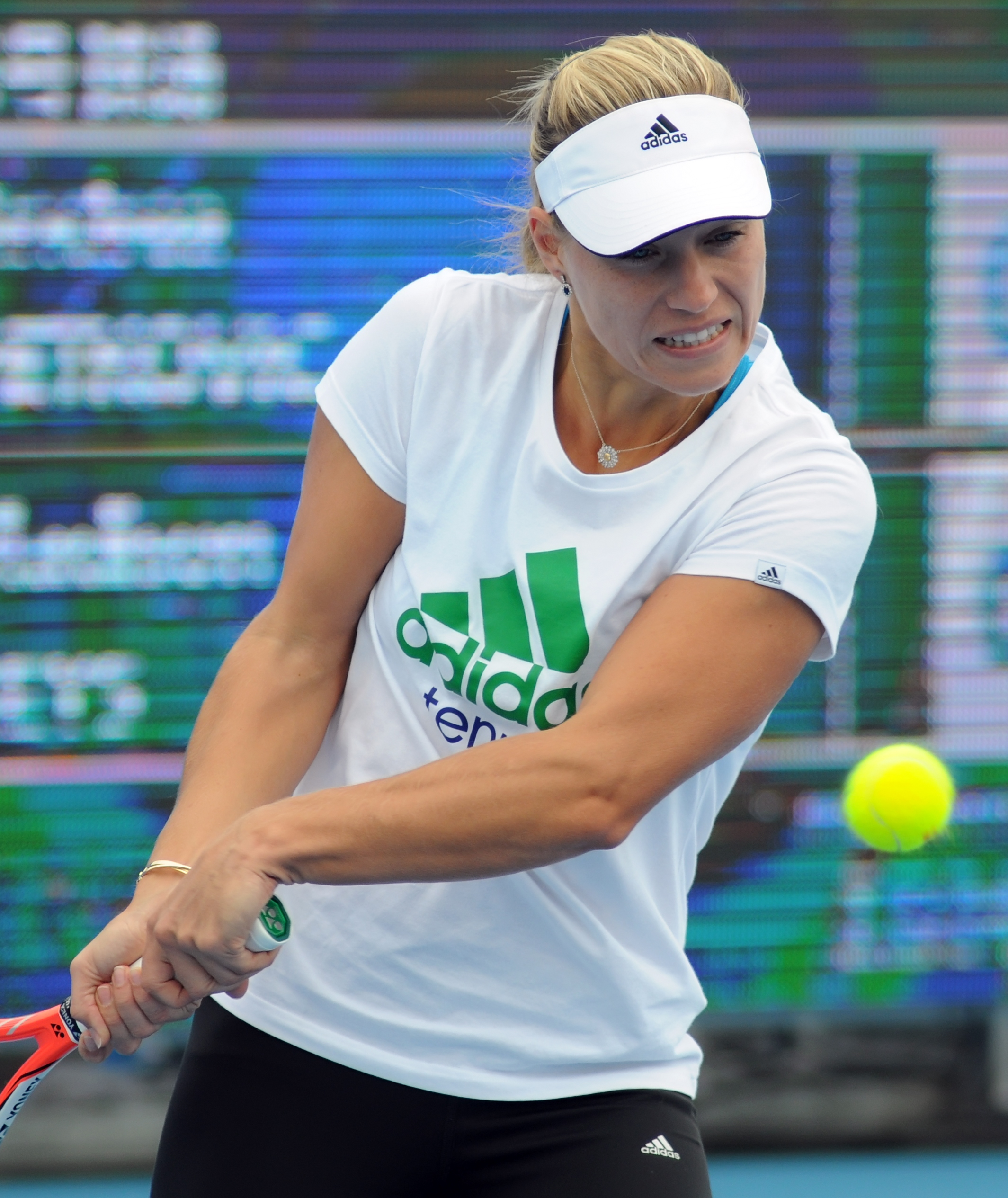 Angelique Kerber at the 2014 China Open